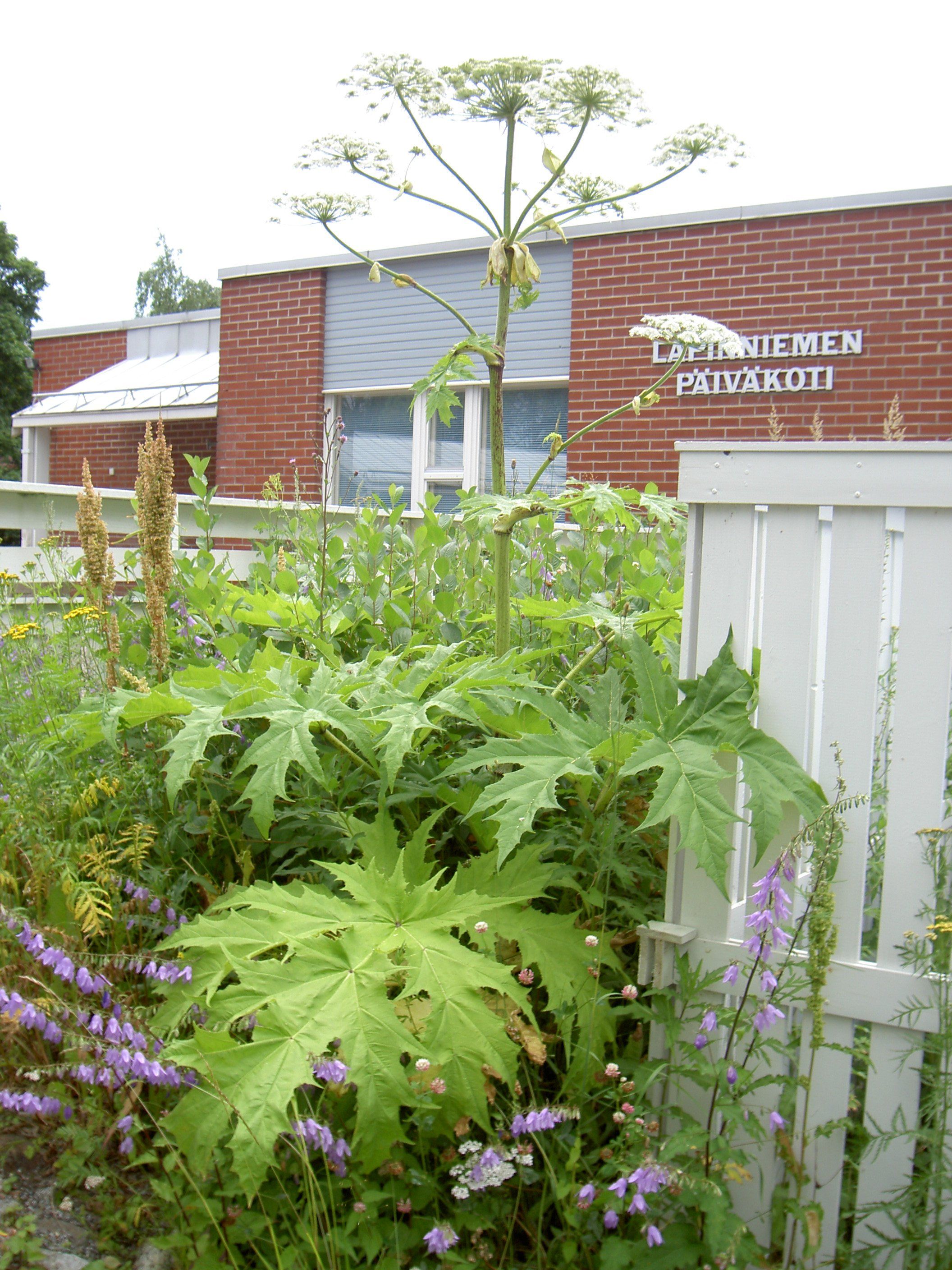 Heracleum mantegazzianum, height around 2.5 meters, in Lapinniemi, Tampere, Finland. Photographed by Teemu Mäki